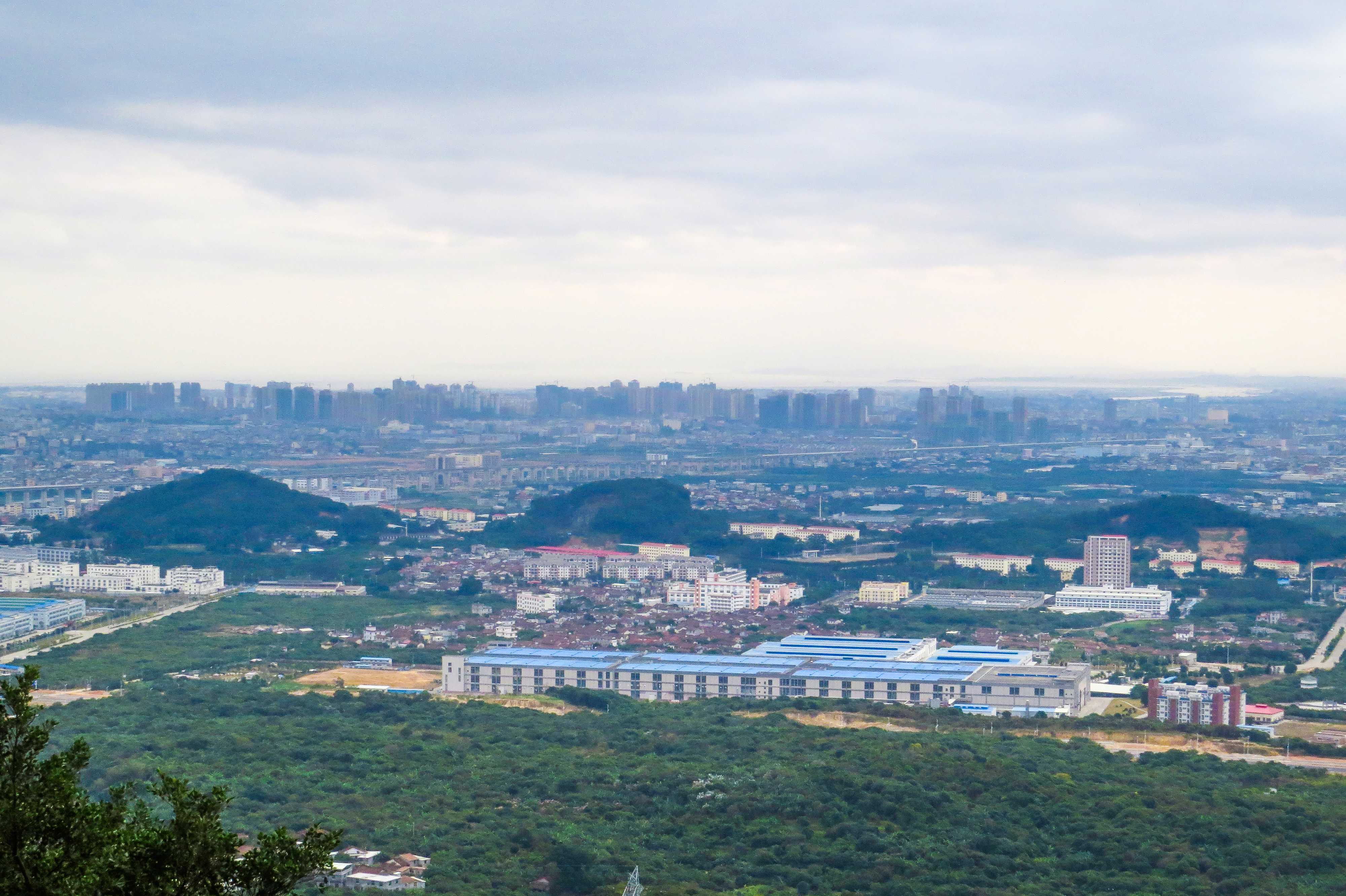 Right here is Sanshan Village.